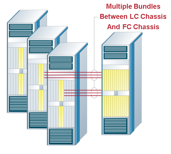 multi chassis configuration explained using this figure